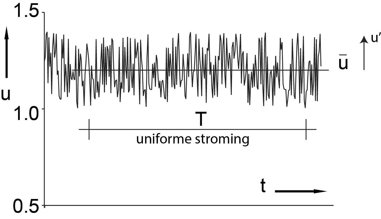 turbulent flow as a function of time